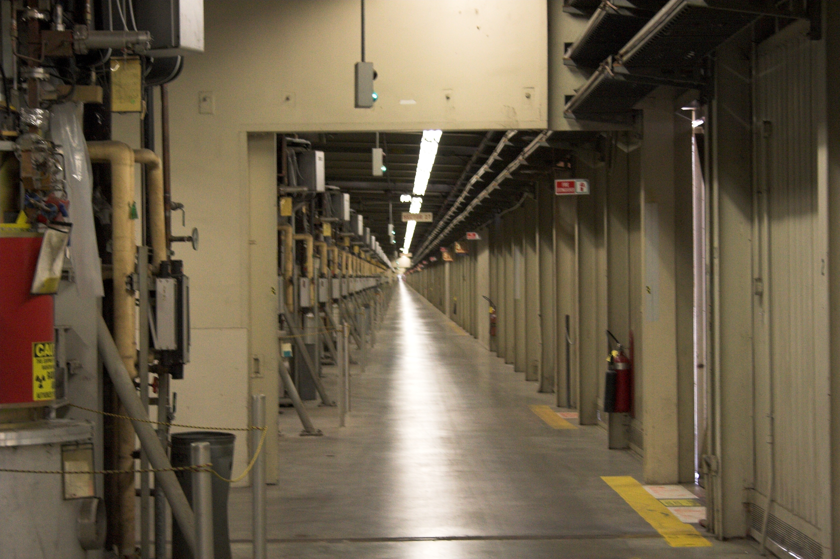 Looking down the full SLAC tunnel. The door is nowhere in sight.